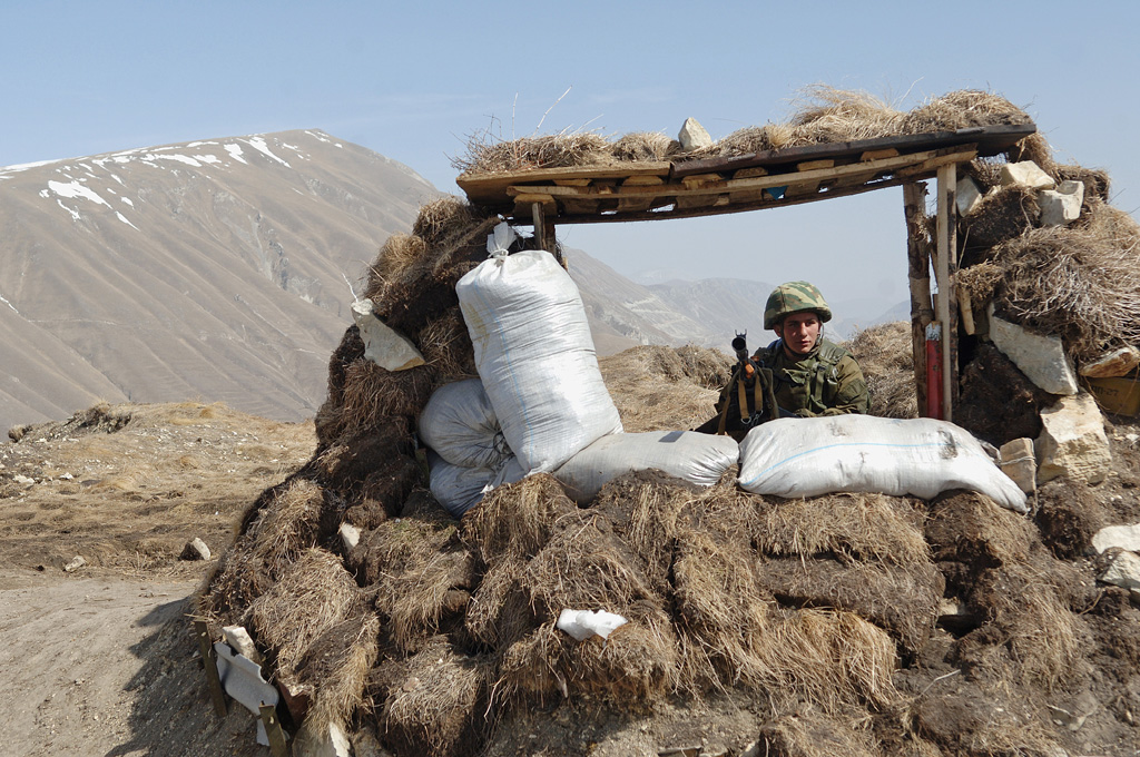 “A mountain outpost”. A mountain outpost of the 33rd Mountain Rifle Brigade in Dagestan.